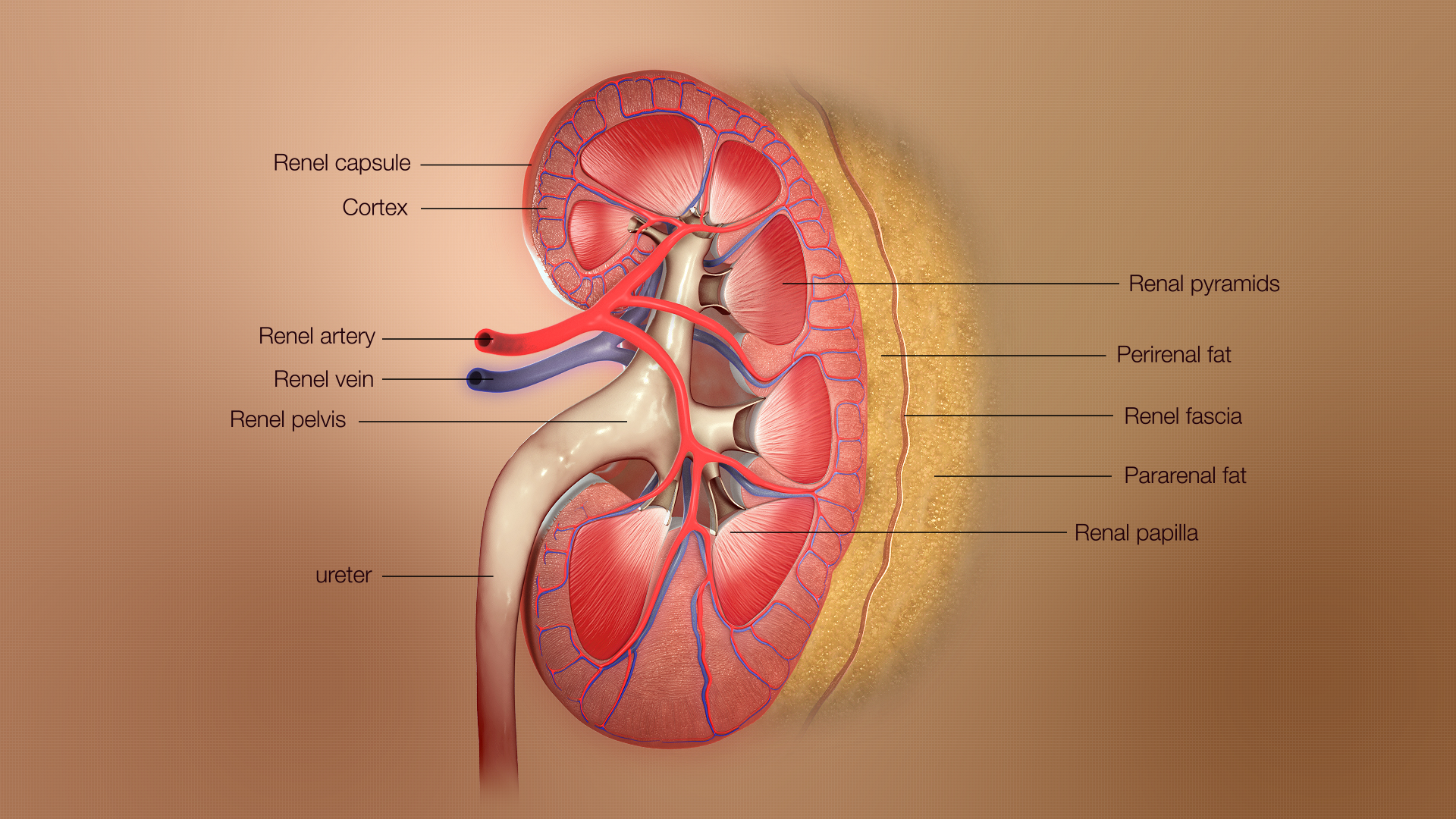 3D medical animation still showing kidney structure, its layers, renal artery, veins & ureter.